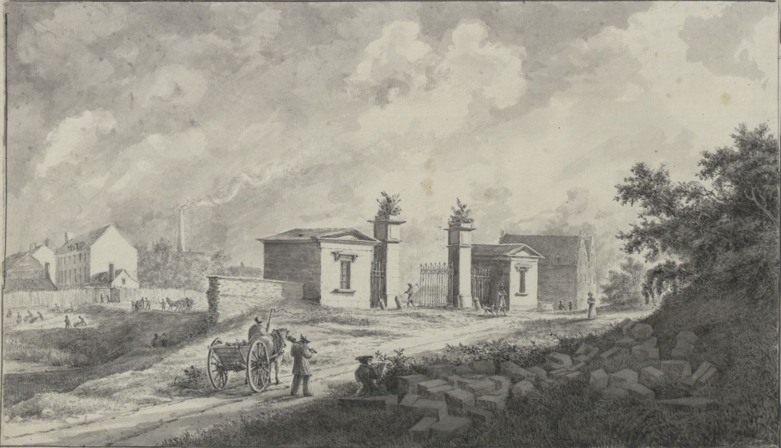 Drawing from the second part of the album 'Vues de Bruxelles et environs' by Paul Vitzthumb, held in the Royal Library of Belgium.